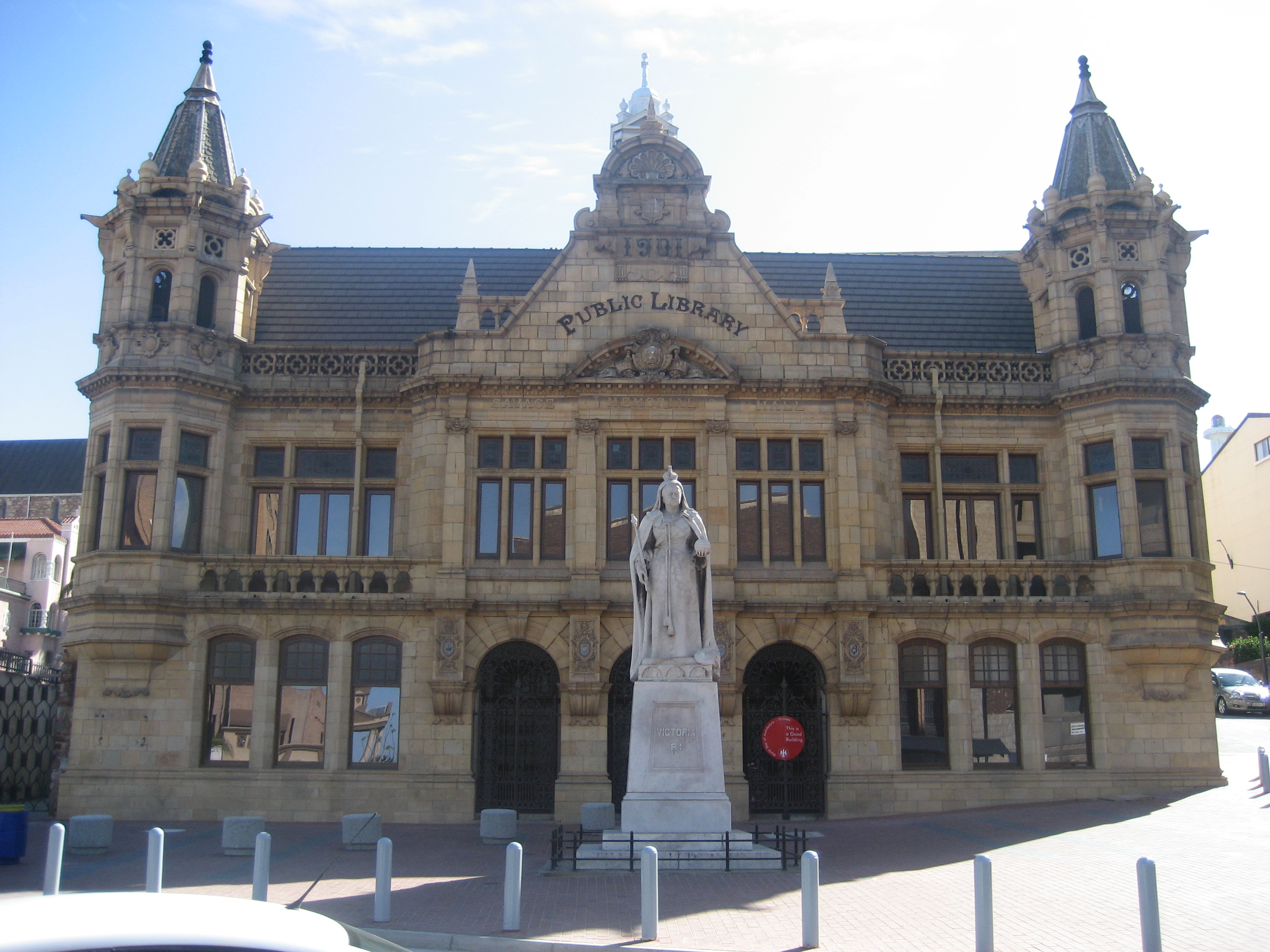 The Public Library in Port Elizabeth This media shows a South African Protected Site with SAHRA file reference 9/2/073/0027.